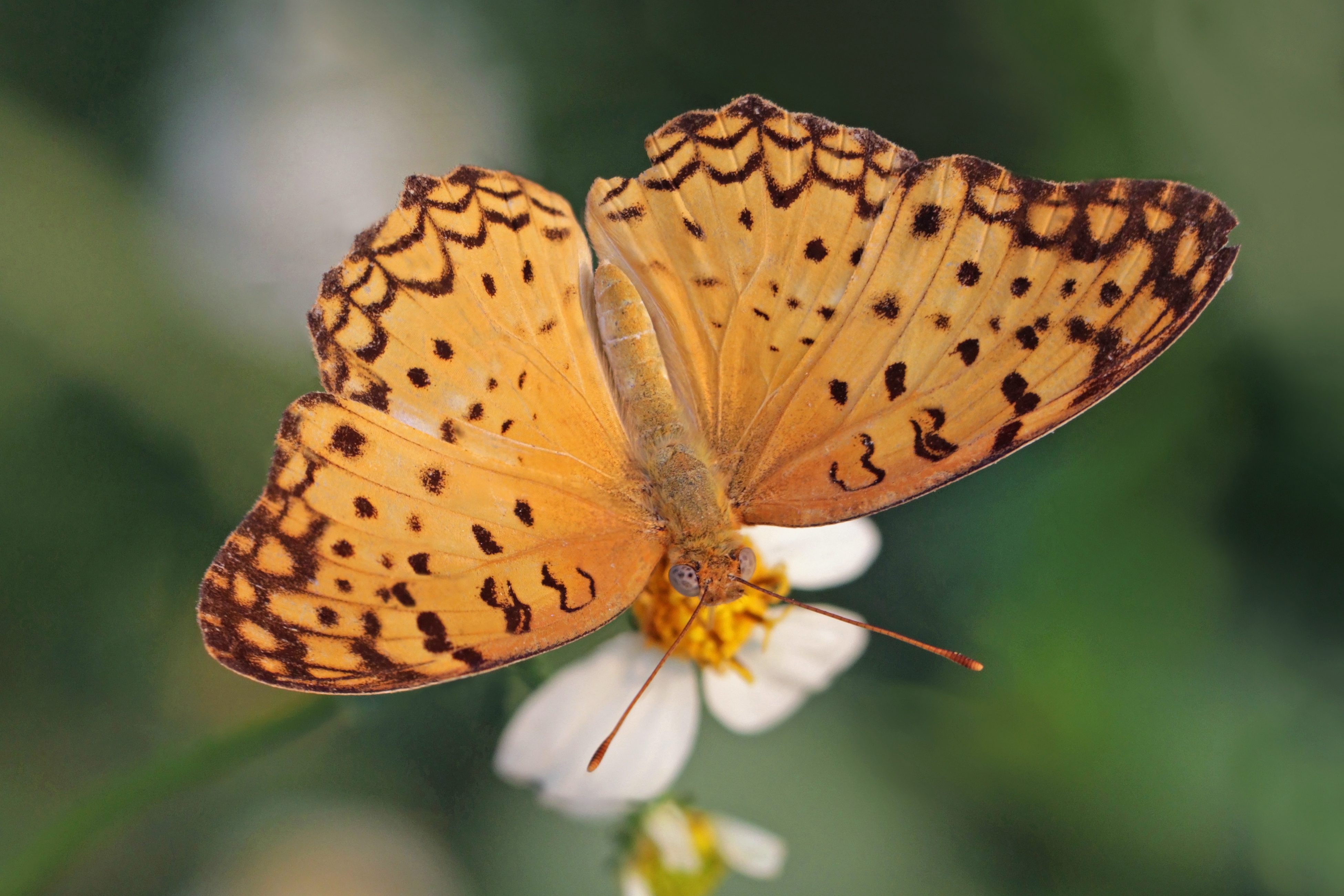 Common leopard (Phalanta phalantha) Lumbini, Nepal. Focus stack of 7 images.